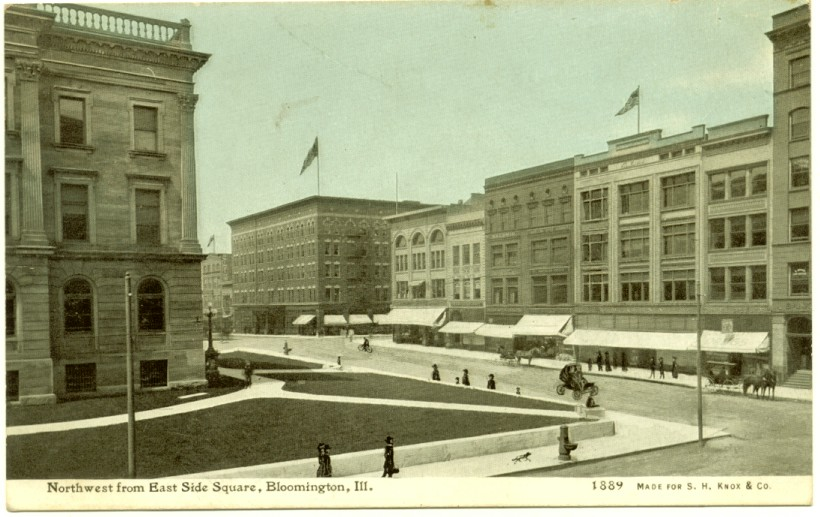 Postcard: Northwest corner, East Side Square, Bloomington, 1910 postmark Description: Caption: "Northwest from East Side Square, Bloomington, Ill." Also on front: "1889 S. H. Knox & Co." The "1889" is almost certainly a catalog number, as is seen on many other postcards from the same era. Store Web page states, "postcard, used, postmarked Hudson, Ill. 1910, has a little soiling along the top" Source: eBay store Web page The postcard states that this picture is 1889. I believe this may be correct, as there was a fire that burned down much of the old downtown in about 1900. Perhaps this was the architect's rendering of the new plans?